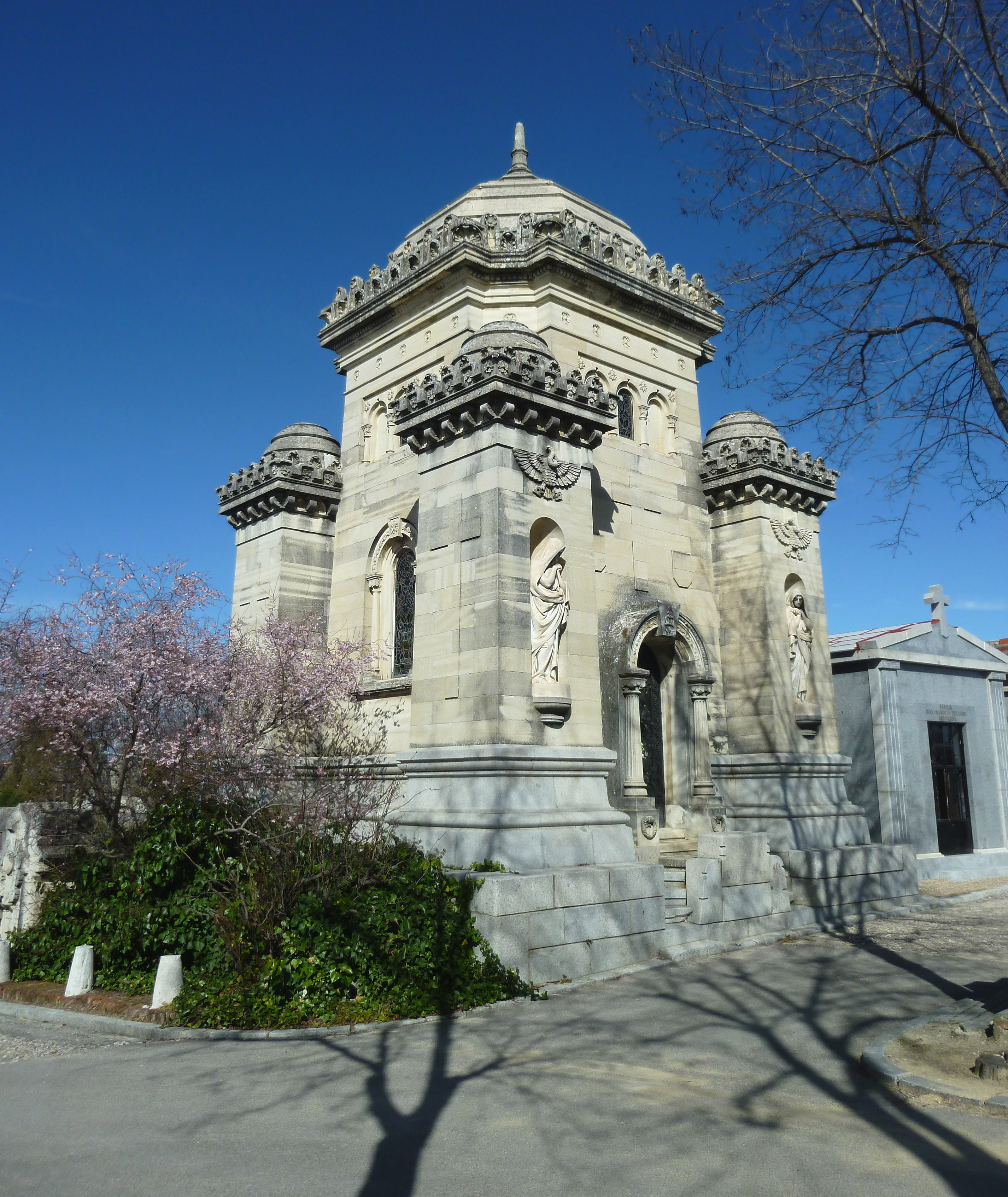 View of the Pantheon of the Viscounts of Llanteno in Almudena Cemetery in Madrid (Spain). Built in 1910.